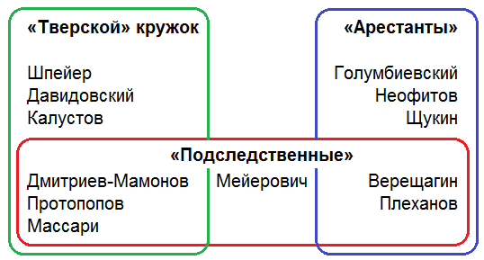 The three rings within the Jacks of Hearts gang (Russian Empire, 1867-1875) and their principal members. There were, in total, 48 men and women indicted but only 28 were convicted.